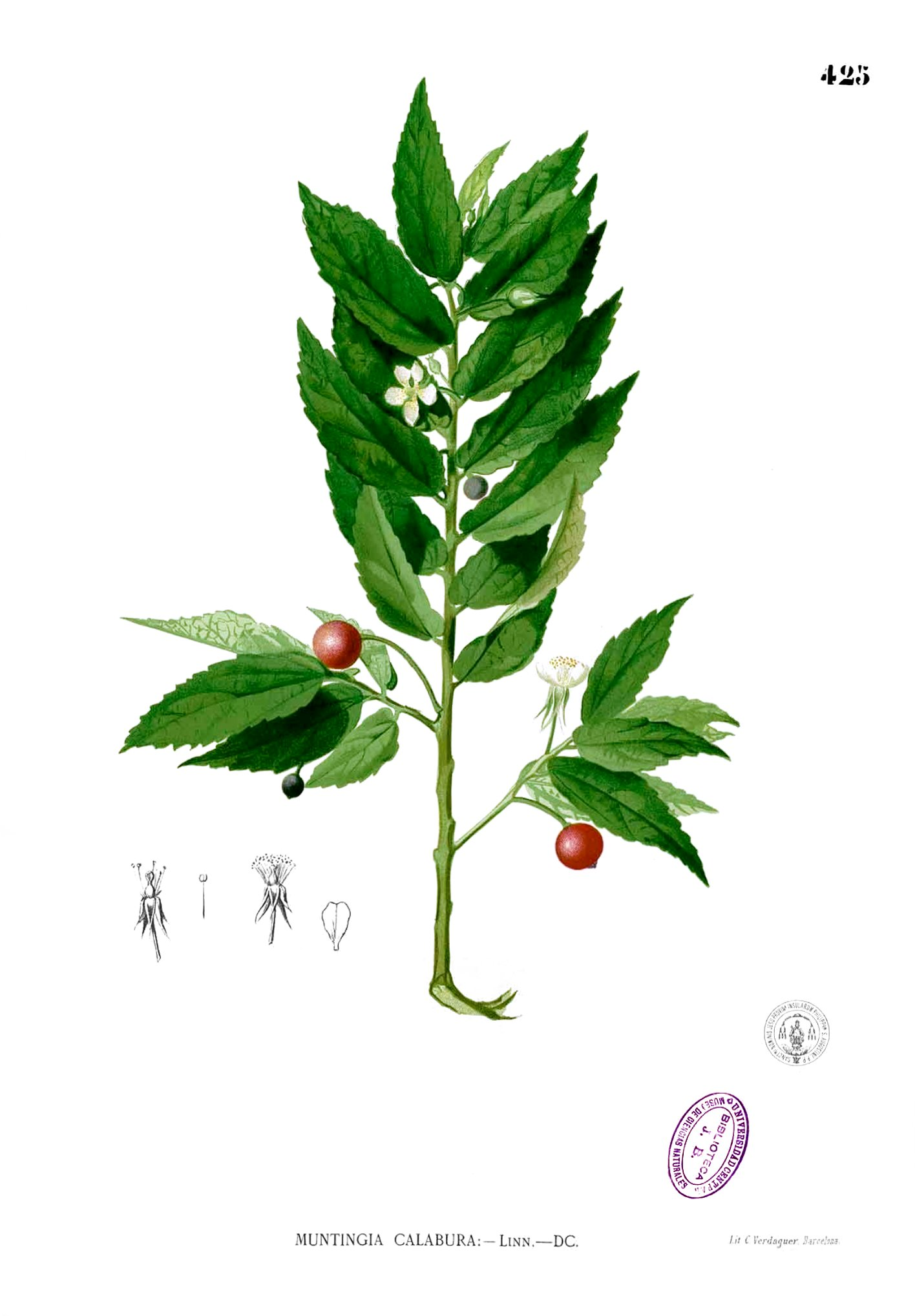 Plate from book